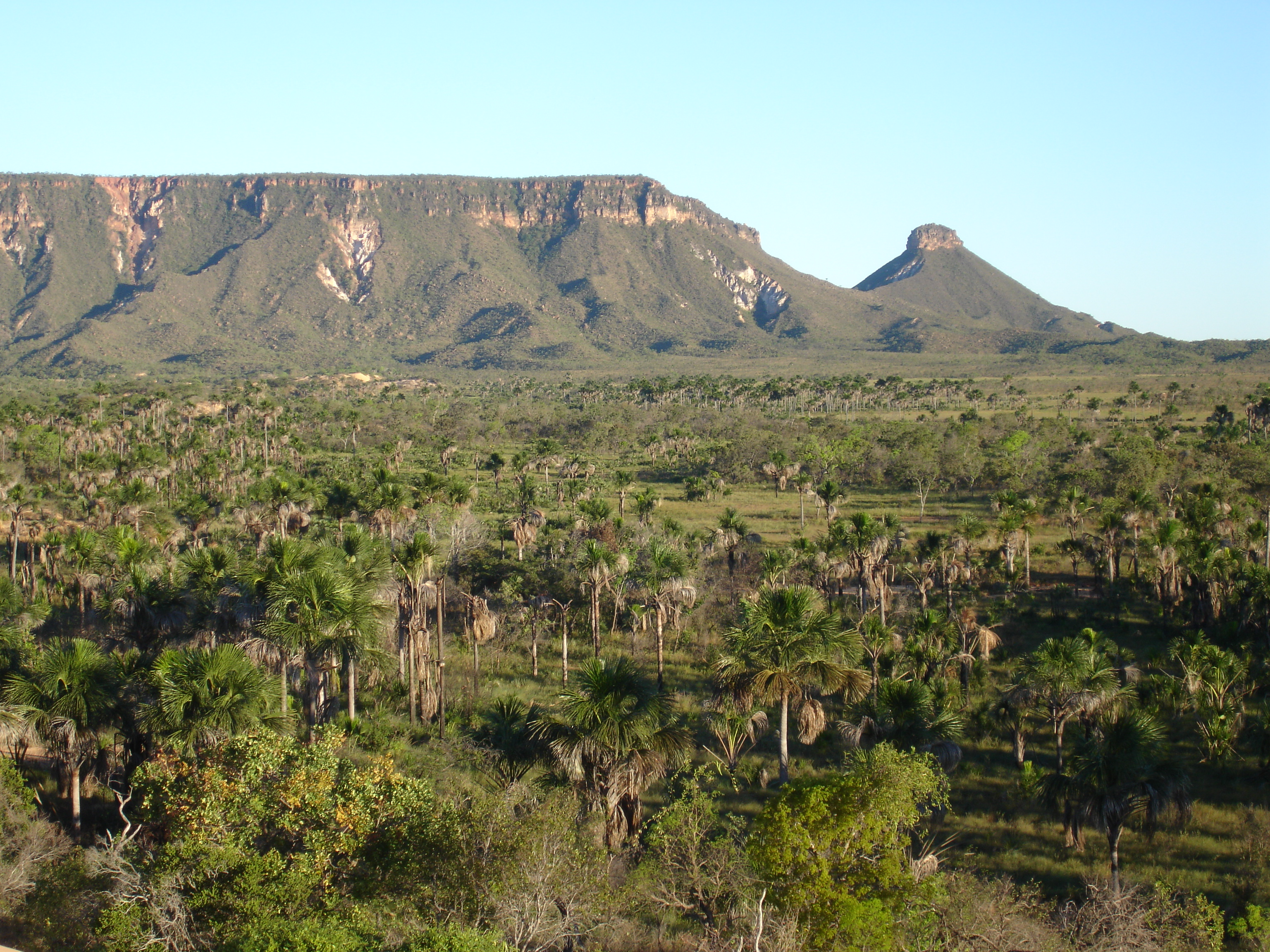 Sight of the Serra do Espírito Santo in Jalapão. The buriti palms indicate the presence of small streams.